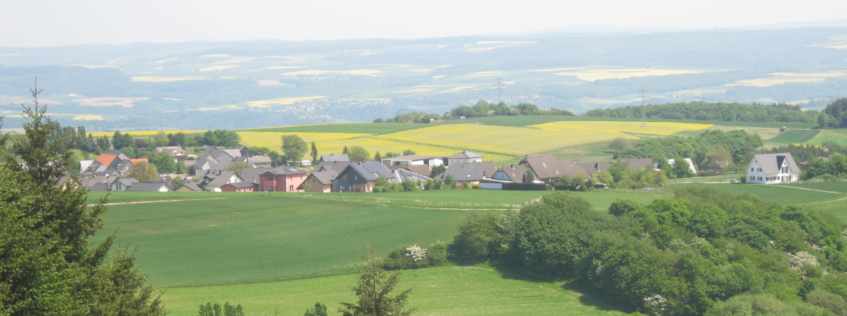 Karbach, Hunsrück.